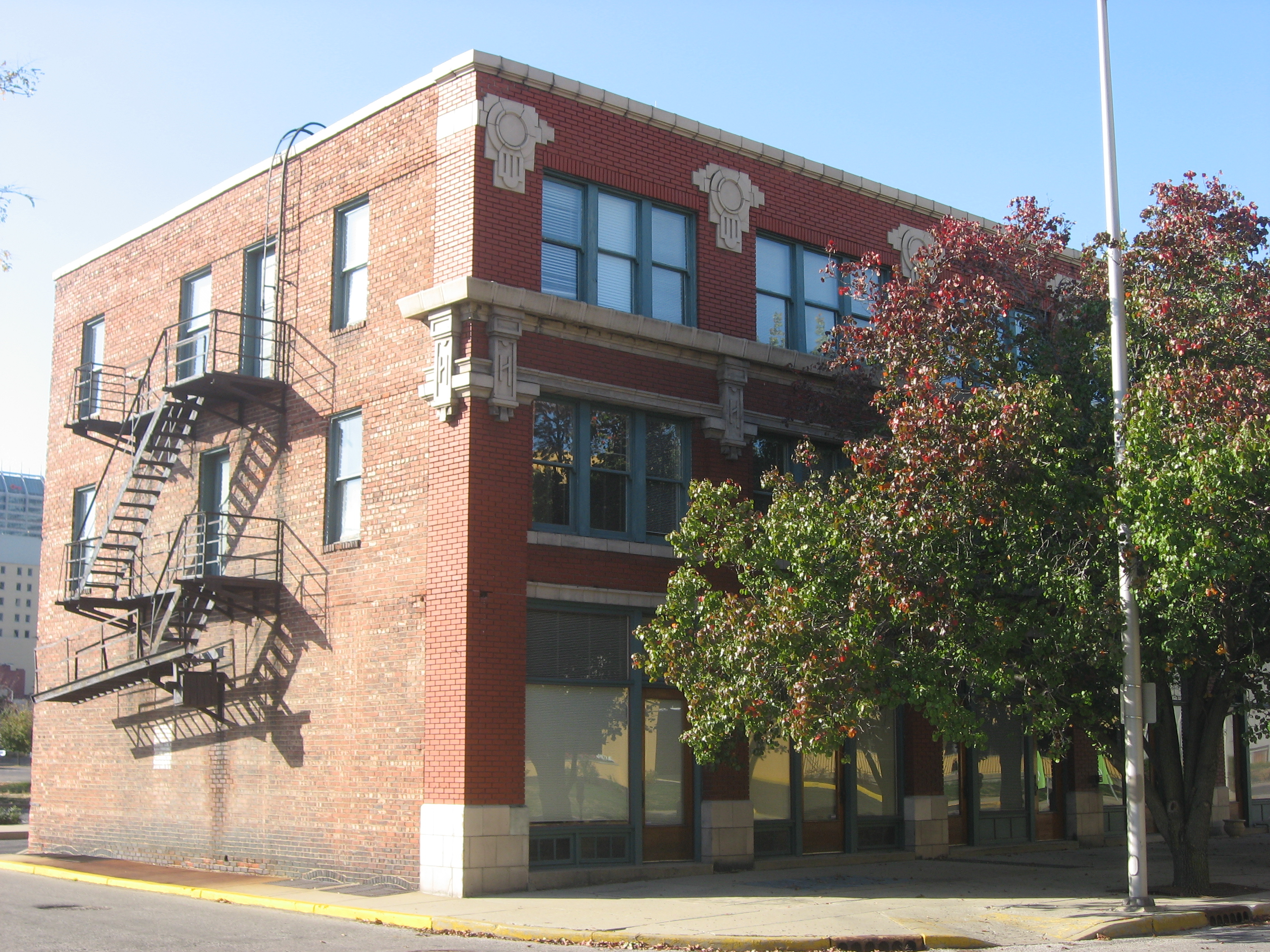 Front and southern side of Heier's Hotel, located at 10-18 S. New Jersey Street in Indianapolis, Indiana, United States. Built in 1879, it is listed on the National Register of Historic Places.